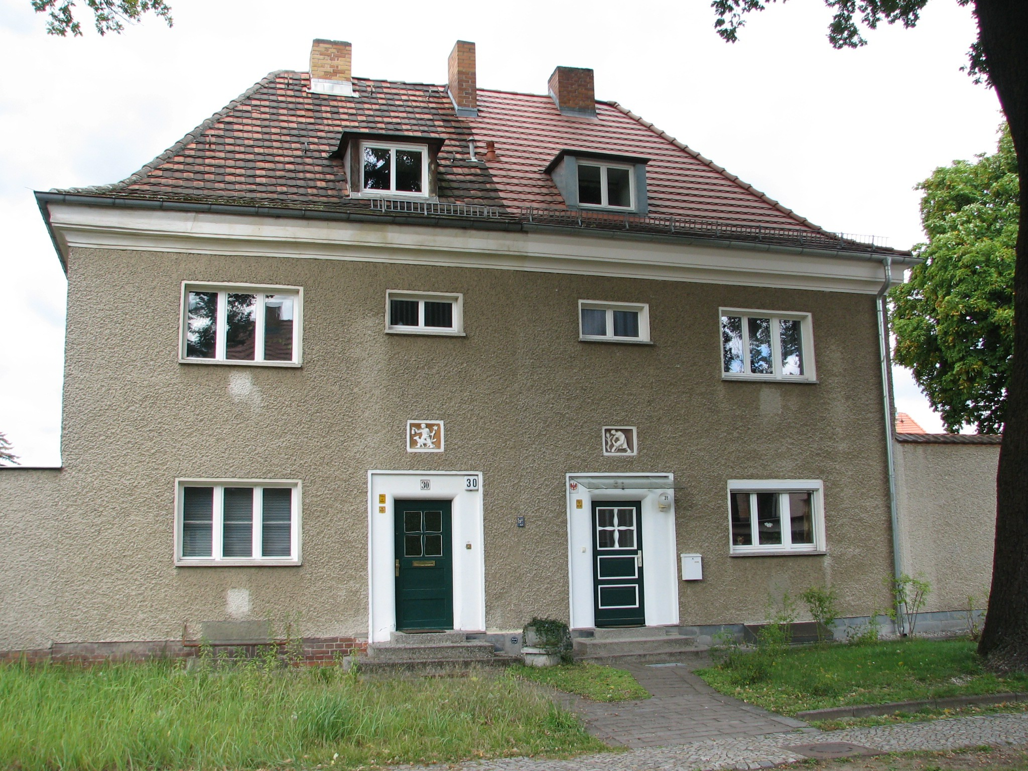 Part of the Elsengrund estate